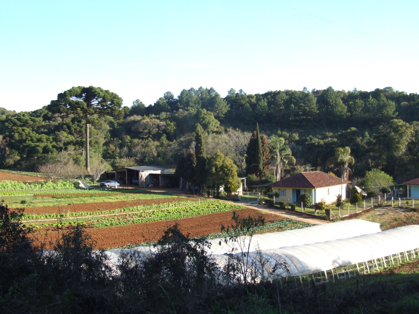 Horticulture plantation in Almirante Tamandaré countryside, Paraná, Brazil